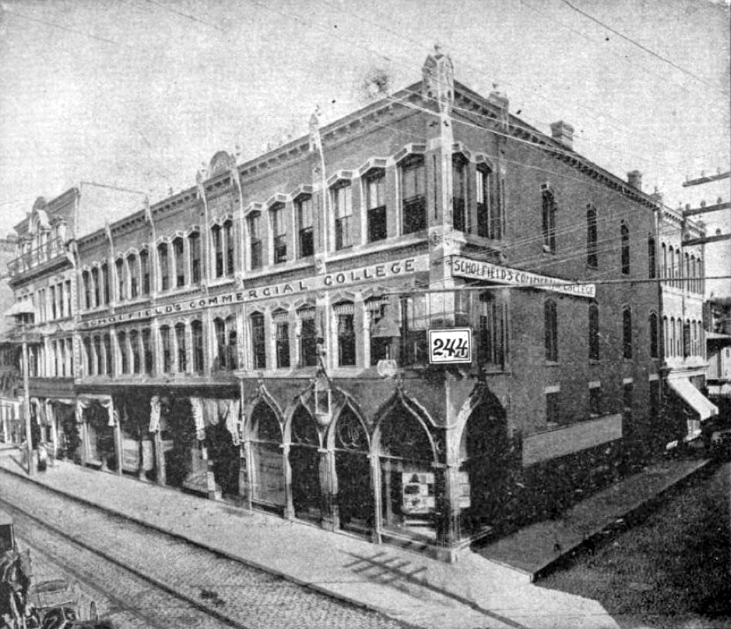 Scholfields commercial college, from The East Providence Directory: Comprising a General and Business Directory and Street Directory of the Town of East Providence, R.I. 1896-1897 Sampson, Murdock & Company, 1896, page 145